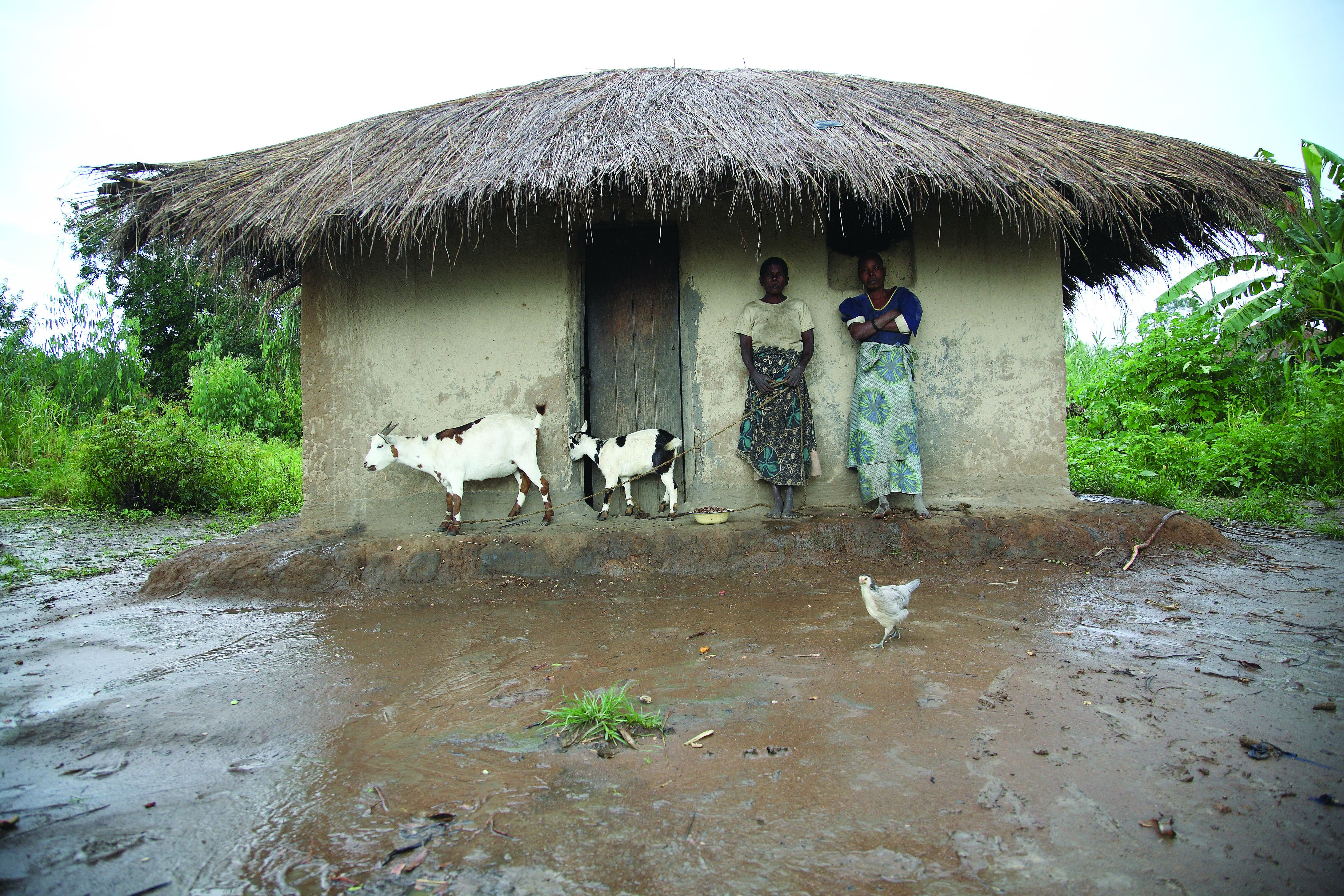 Household takes refuge from the rain in central Malawi, Nr Dedza, Khulungira village. ILRI 2010 Calendar, caption Creating new options for women’s employment. More livestock opportunities mean more women earning a living.